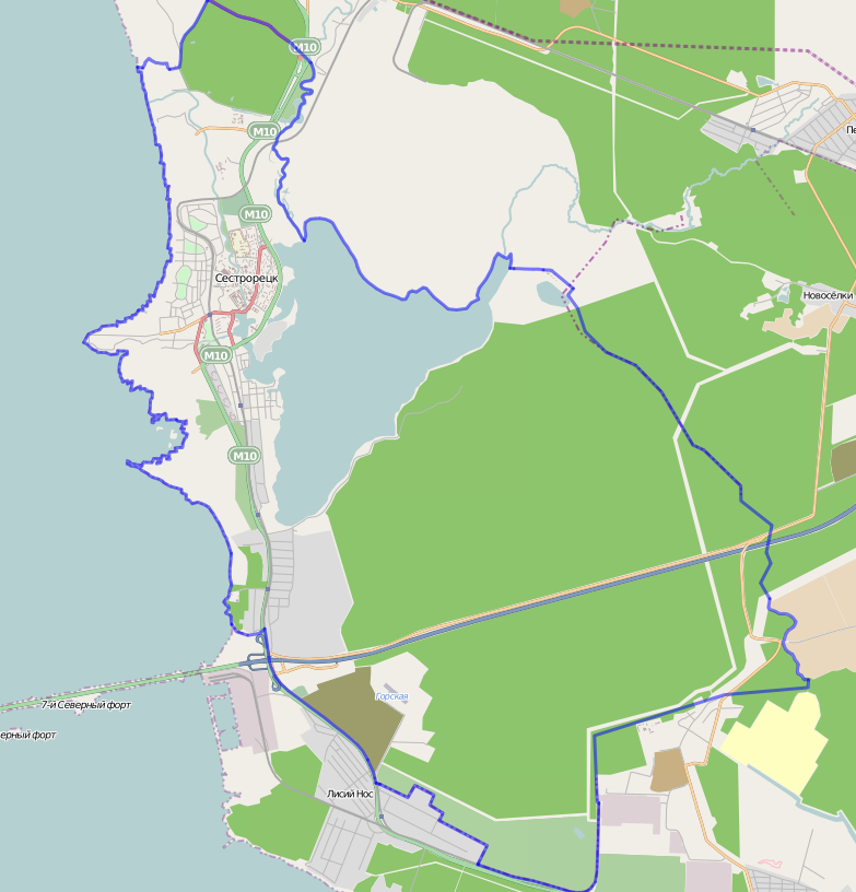 This map may be incomplete, and may contain errors. Don't rely solely on it for navigation.